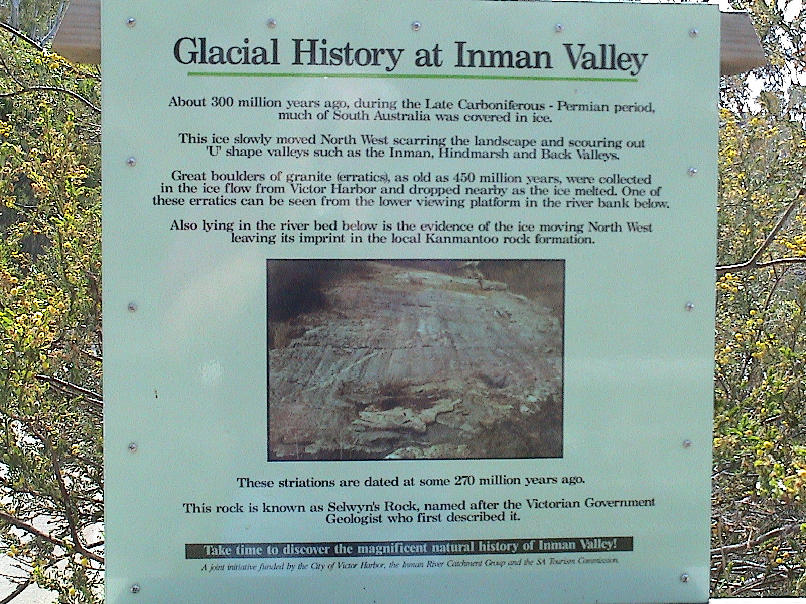 Interpretive sign at Selwyn Rock, Inman River, South Australia - exhumed Permian glacial pavement